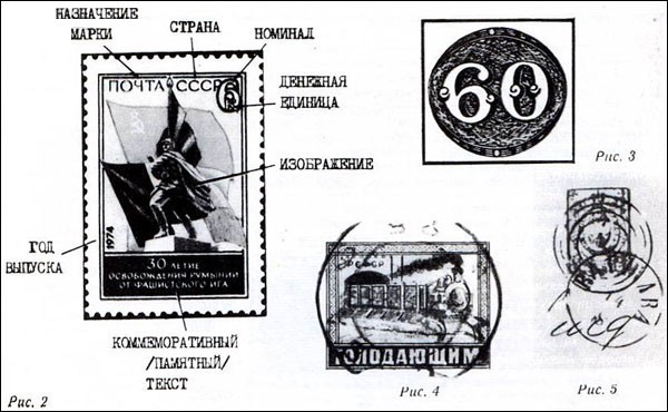 Illustration to an article by Boris Kisin published in Filateliya SSSR magazine (Philately of the USSR)